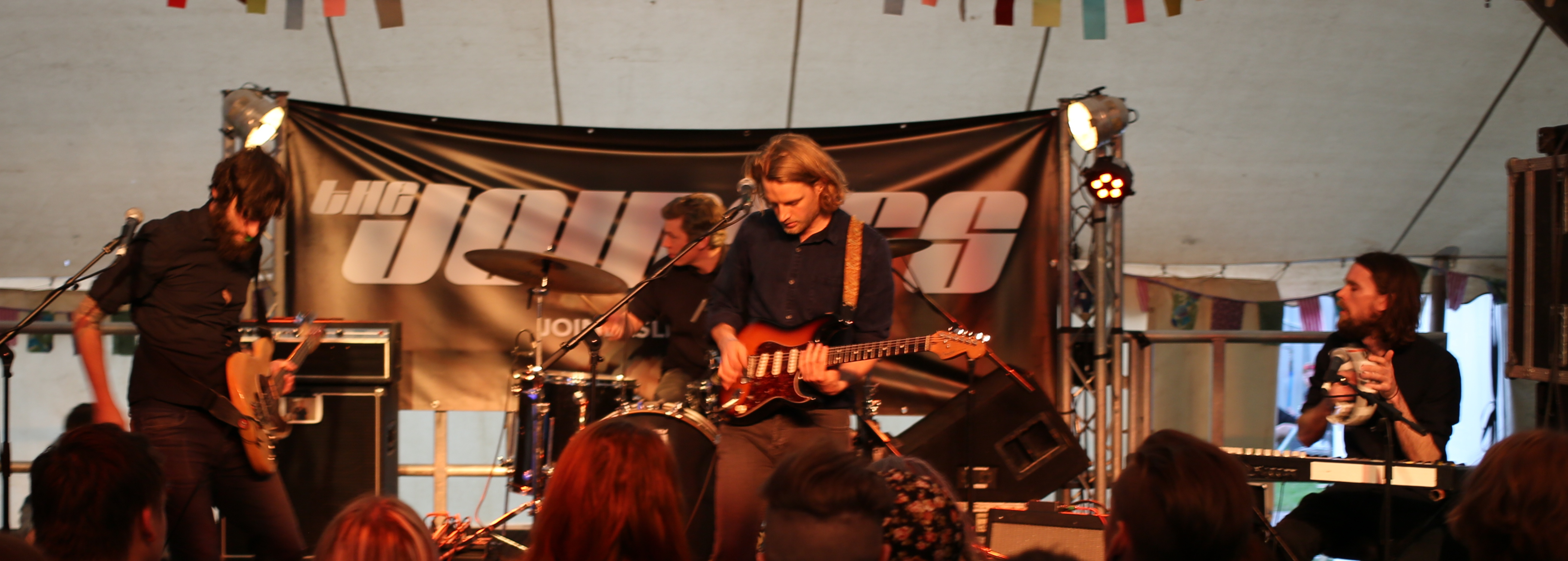 Photo of tall ships at on the uncommon people stage at common people southampton 2016